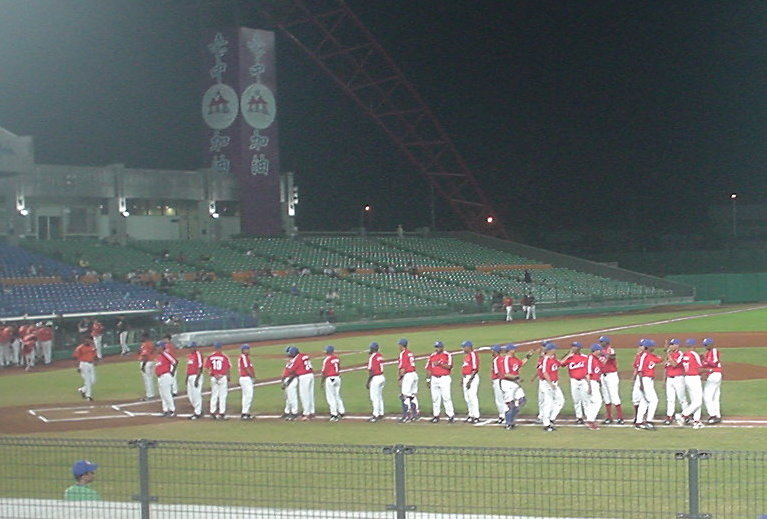 The Cuban national baseball team as they wait for the Dutch team to be announced before the gold medal game of the 2006 Intercontinental Cup in Taichung, Taiwan on November 19, 2006 Photo taken on November 19, 2006.